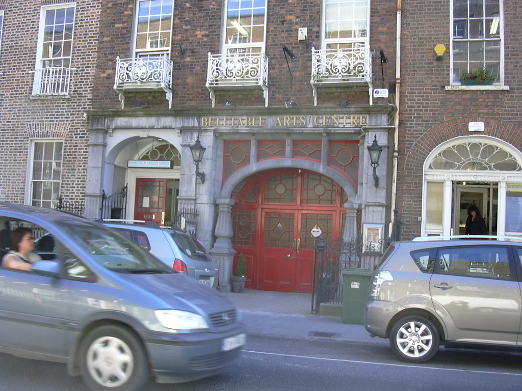 Belltable Arts Centre in O'Connell Street, Limerick, Ireland. I took photo myself (on Friday 6 April 2007) and hereby release it into the public domain.